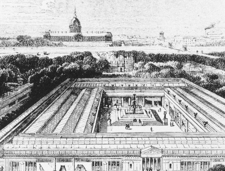 1849 Paris Industry Exposition Building, with Les Invalides in the Background